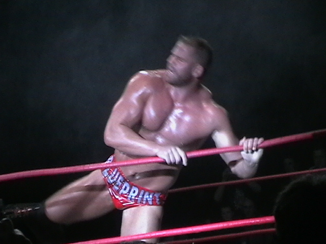 Matt Morgan at a house show in Dublin Ireland